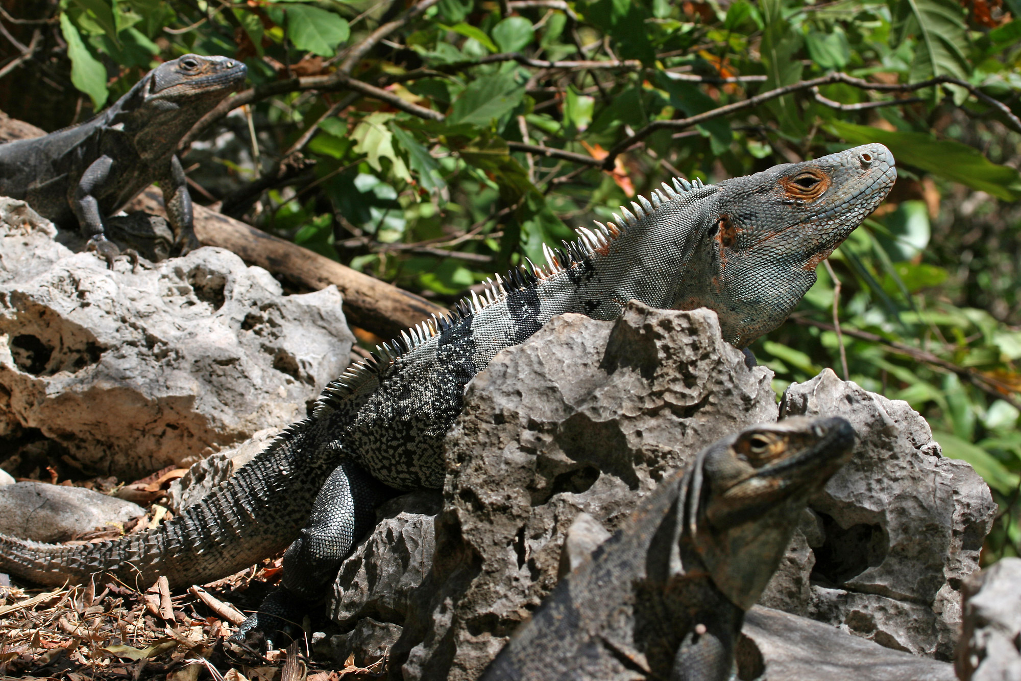 Black Iguana, male with two females, Barra Honda national park, Costa Rica.